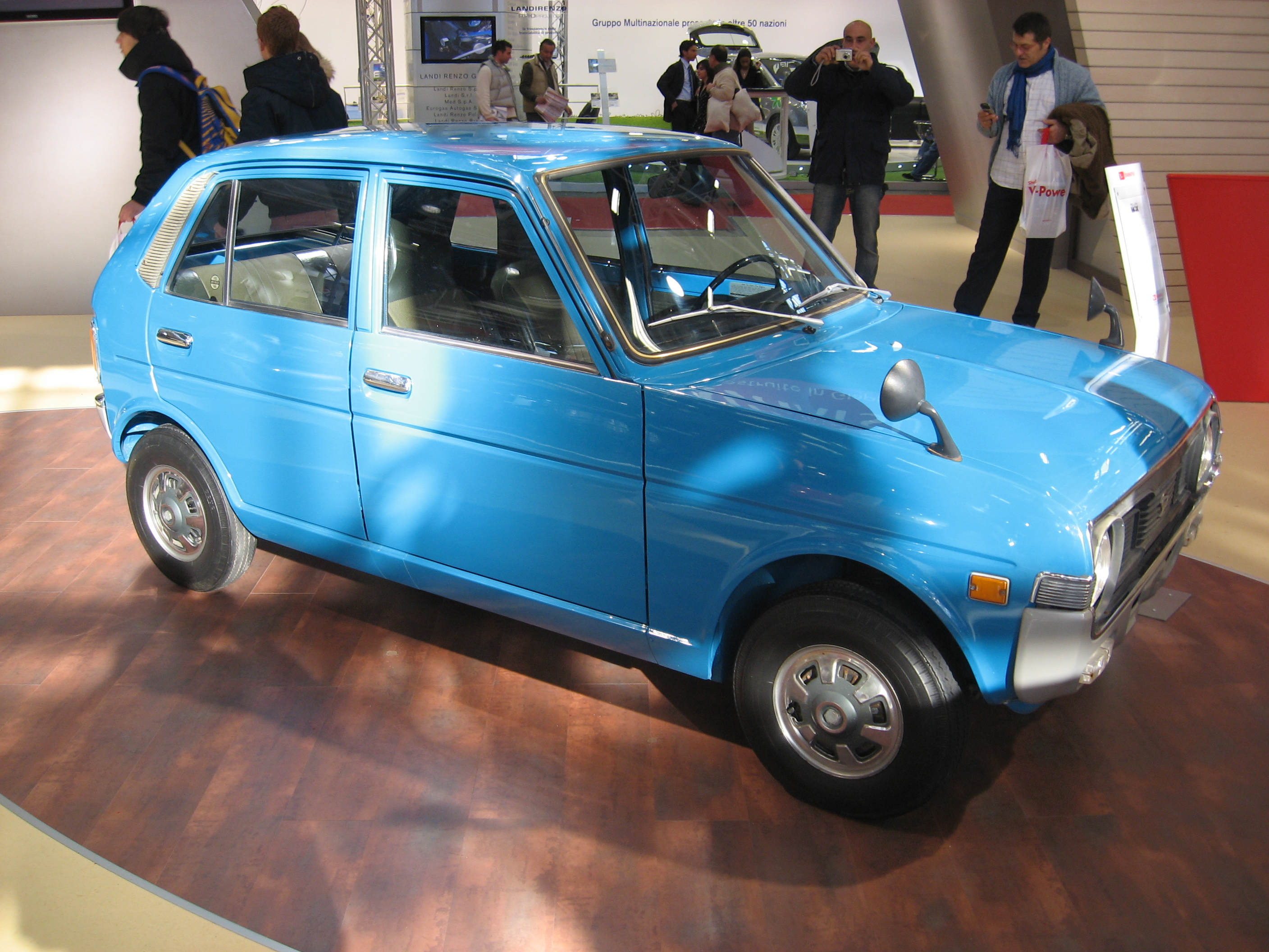 Subject:1975.02-1976.05 Daihatsu Fellow Max 360 Author:Luc106 Date:December 13th, 2007 Event:Motor Show Bologna 2007 Place/Country: Bologna, Italy I release all rights in the public domain.